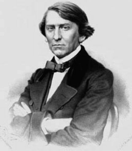 Alexey Pleshcheyev photo of 1840-50s